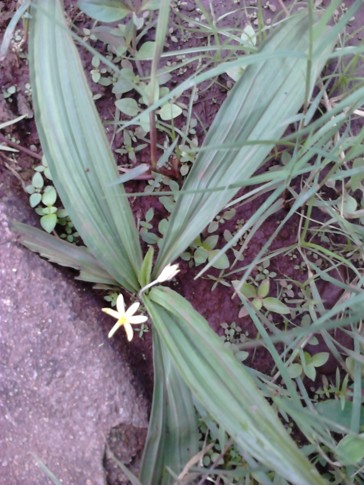 Curculigo orchioide, a medicinal herb.